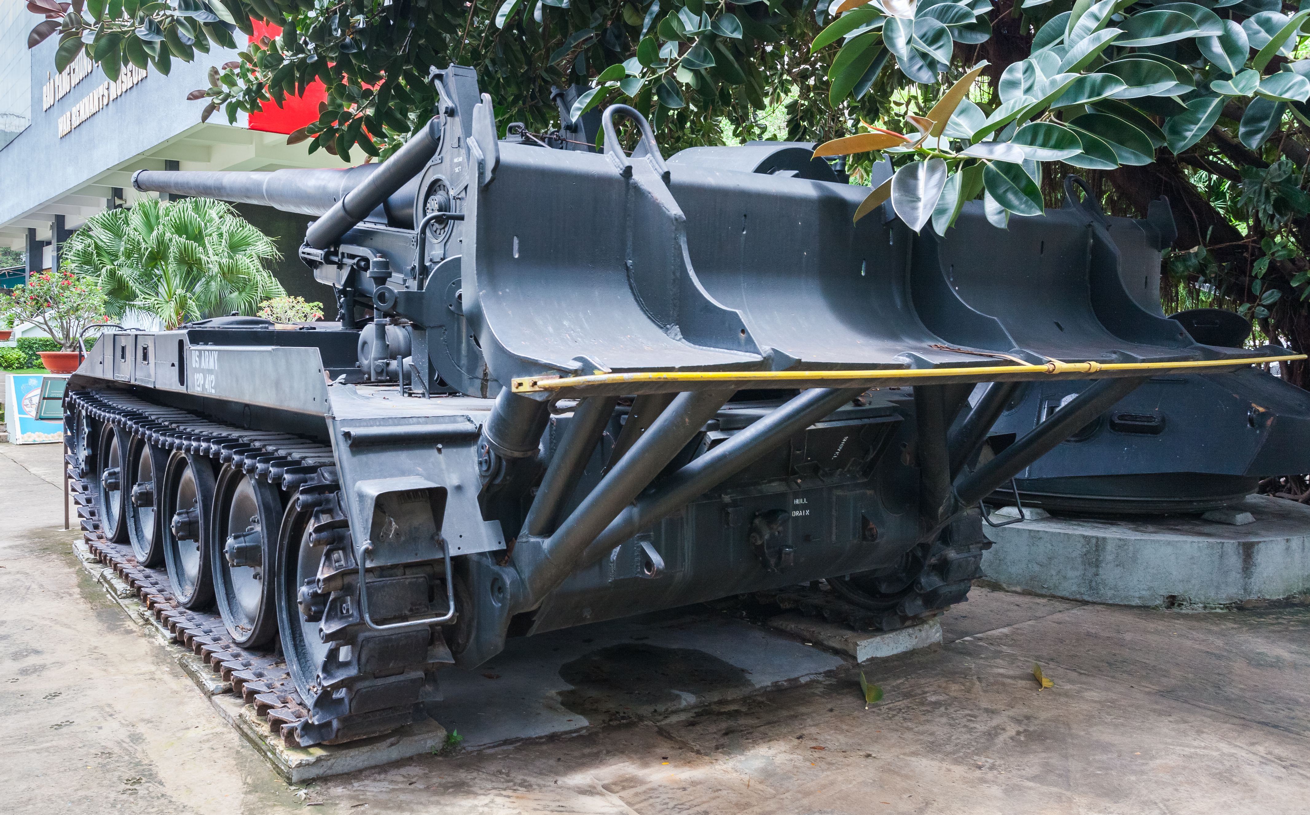 M-107 artillery, Ho Chi Minh City, Vietnam